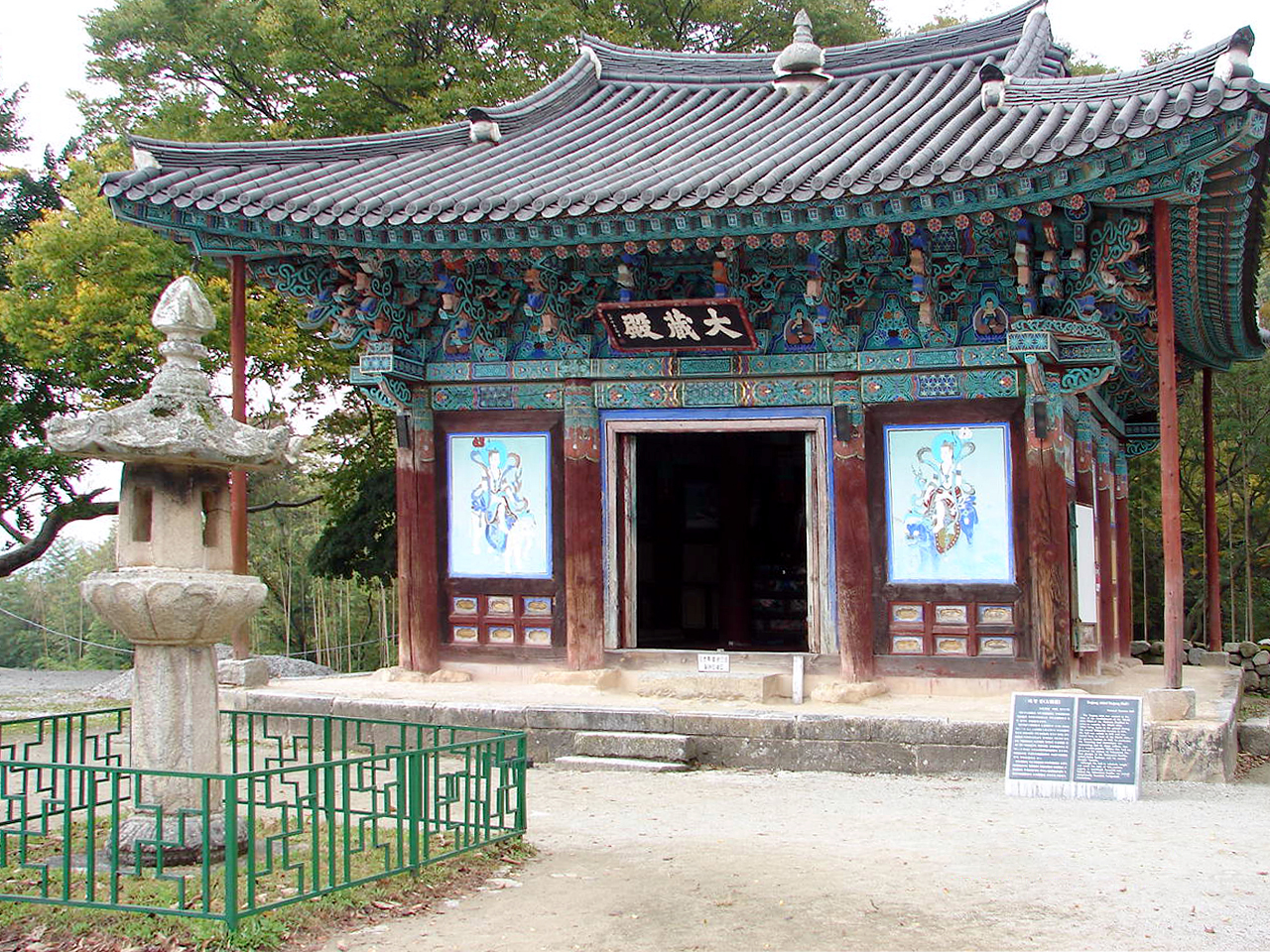 Geumsansa Daejangjeon was rebuilt in 1635 from an octagonal wooden pagoda, and moved to the present site in 1922. It is now used as a hall to enshrine the images of Sakyamuni Buddha and his two ablest disciples, Kasyapa and Ananda. Simple as it is in structure, this small, modified building is of great significance to the study of wooden architecture including wooden pagodas of the era. A small number of images atop the hall's roof show a vestige of the past when it was a wooden pagoda. National Treasure #827